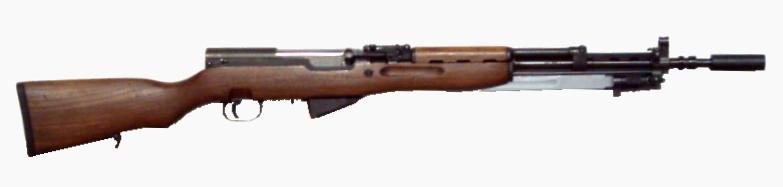 Yugoslavian M59/66 SKS with grenade launcher on front of muzzle (covered by a pipe), grenade sights, and thick rubber pad on buttstock.